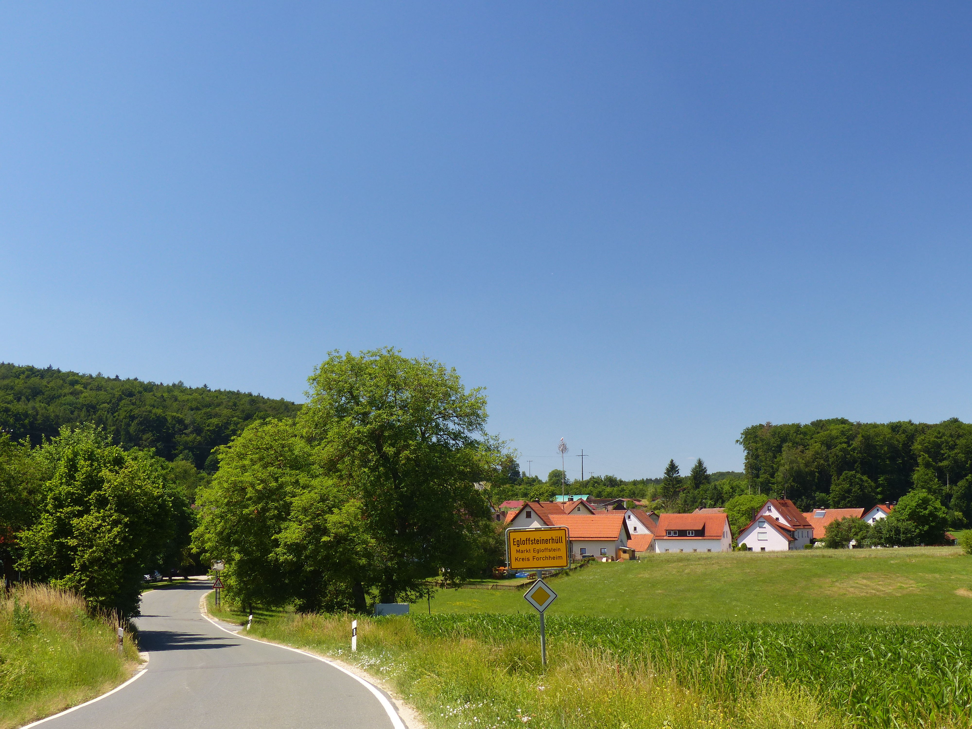 The village Egloffsteinerhüll, a district of the municipality of Egloffstein.